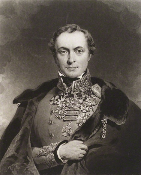 Major General The Right Honourable Sir Henry Hardinge, K.C.B., M.P.